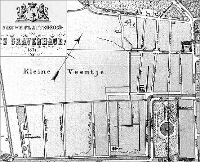 Map of the Zeeheldenkwartier in The Hague, Netherlands, dated: 1874